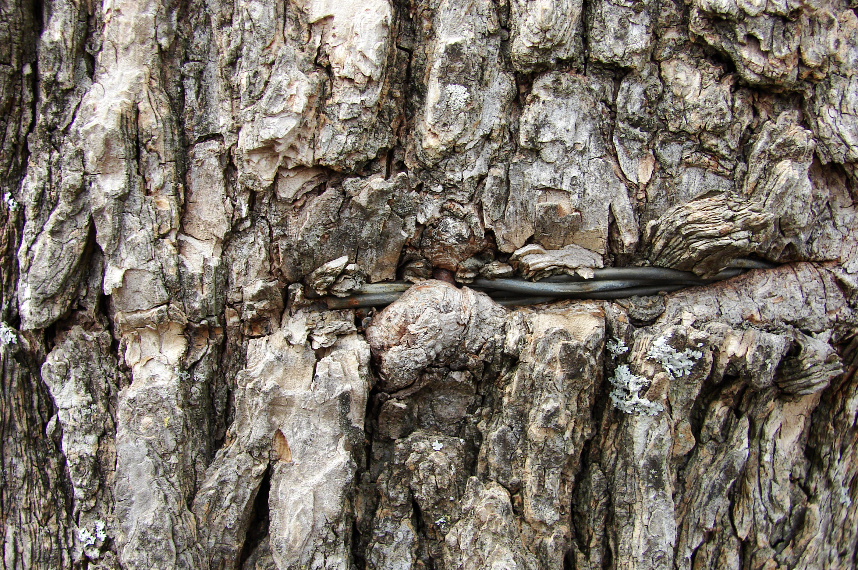 Tree bark with embedded wires in North Texas.